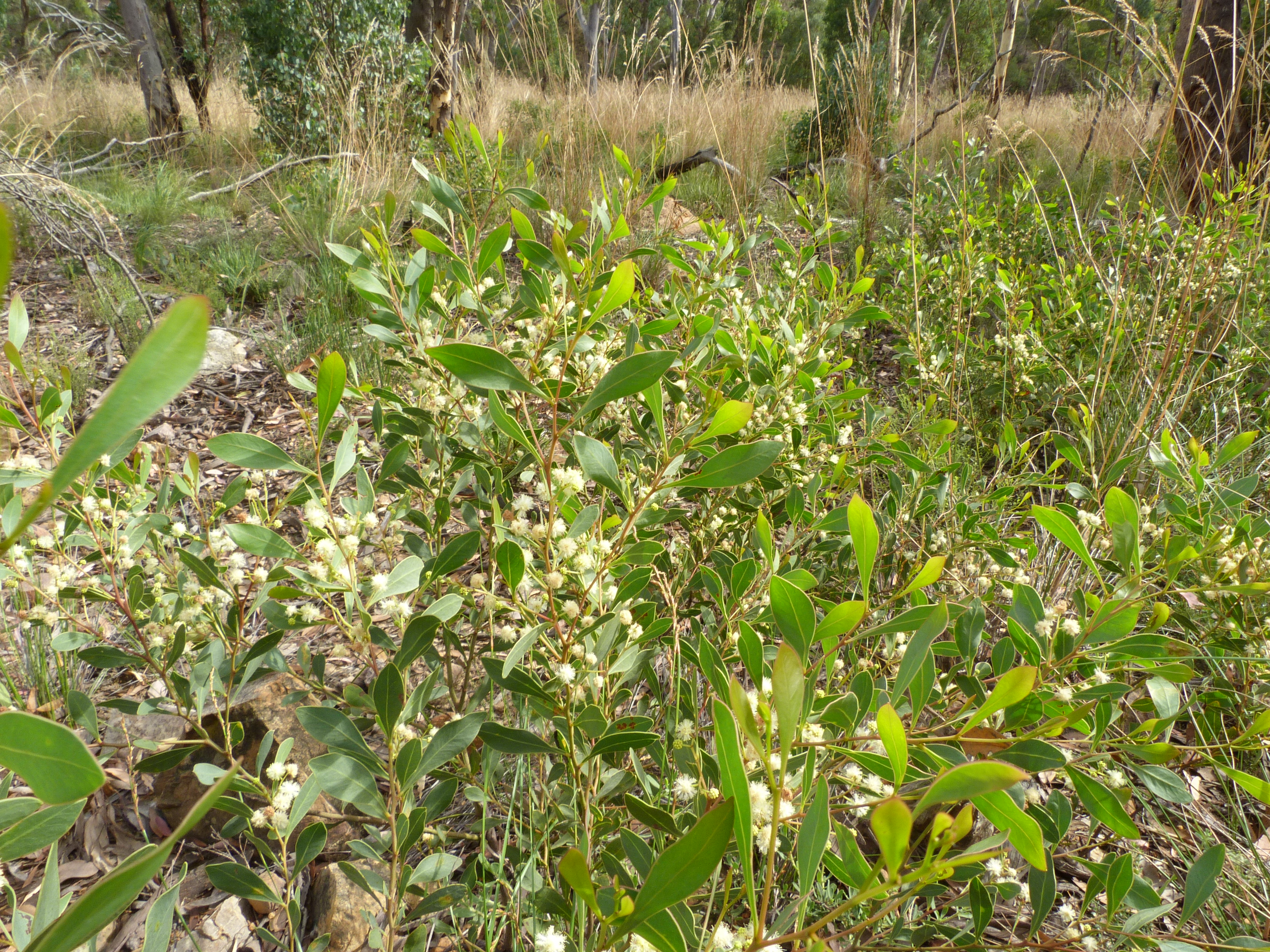 Acacia penninervis Sieber ex DC., Black Mountain, Canberra, ACT, 18 January 2011 Low shrubs, phyllodes variable, broad, rounded or pointed, with main vein and margins pale; flowers pale yellow